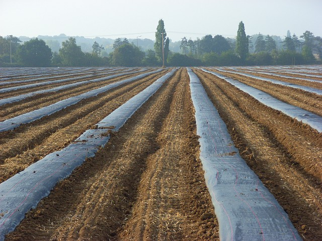 Fruit farming, Wargrave. Looking down from the B477 across the strawberry fields towards the A4.